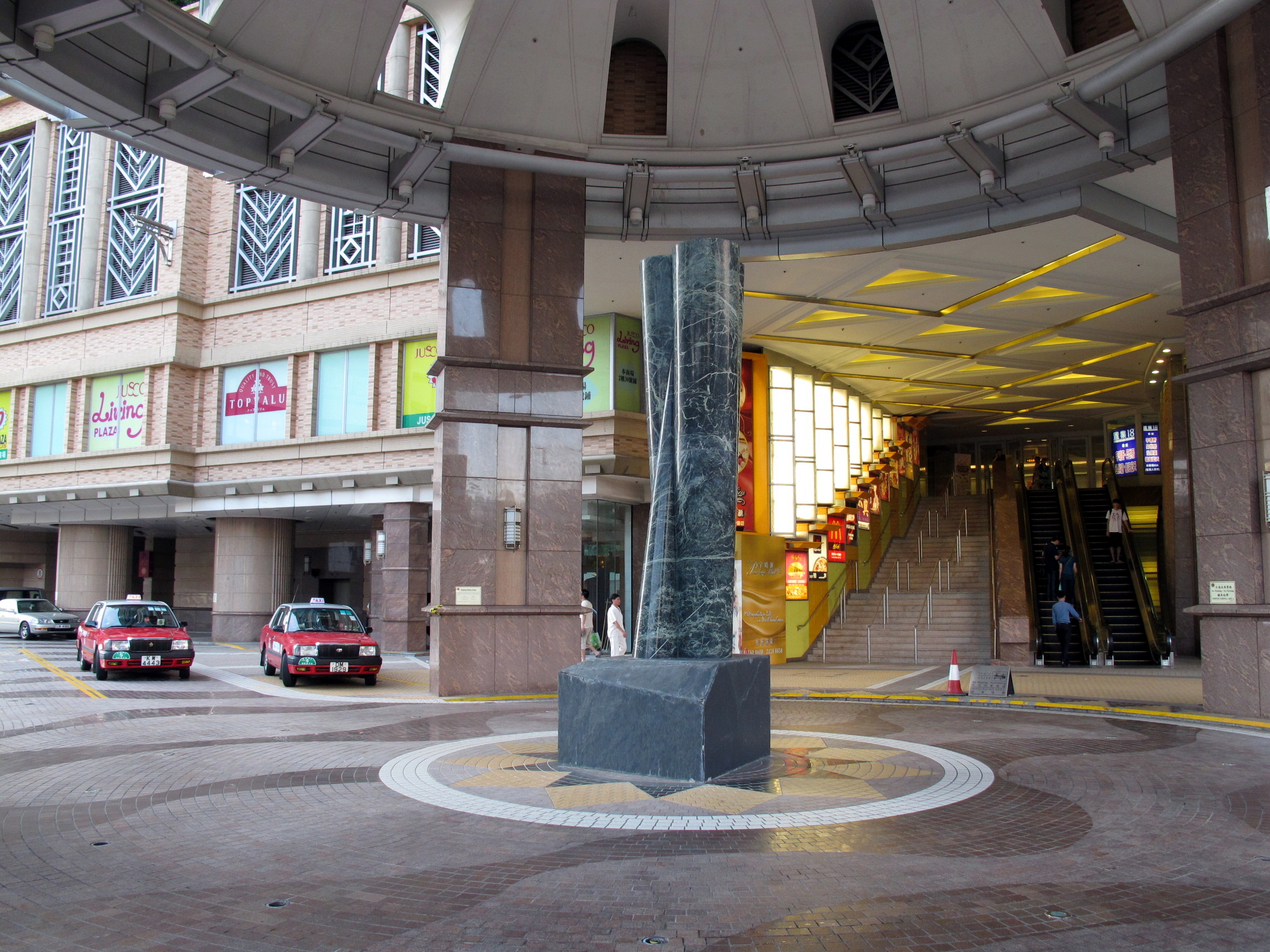 The Pacifica Shopping Arcade Enterance